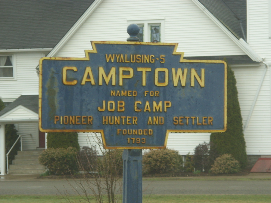 Pennsylvania Keystone Sign for Camptown (namesake of Camptown Races) near Wyalusing, Pennsylvania